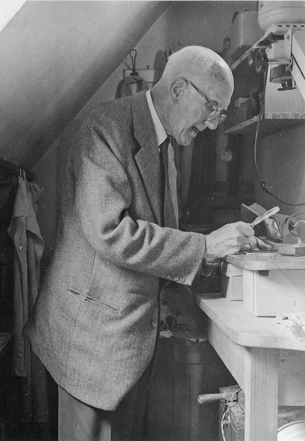 Amateur Photographer Rudolf Guthmann in his Darkroom